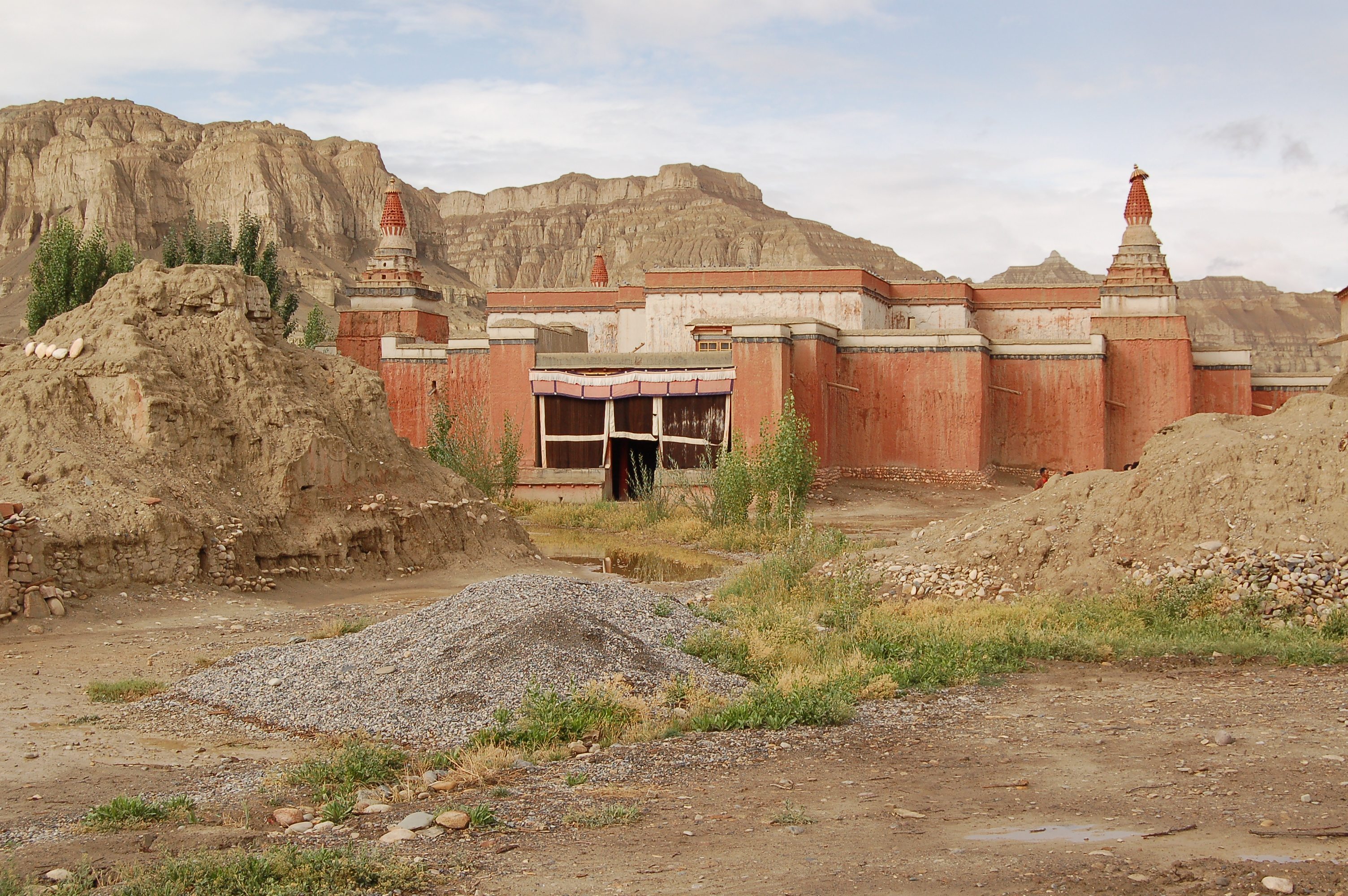 The red temple of Tholing-monastery, build 996, (Tibet) surrounded by ruins.